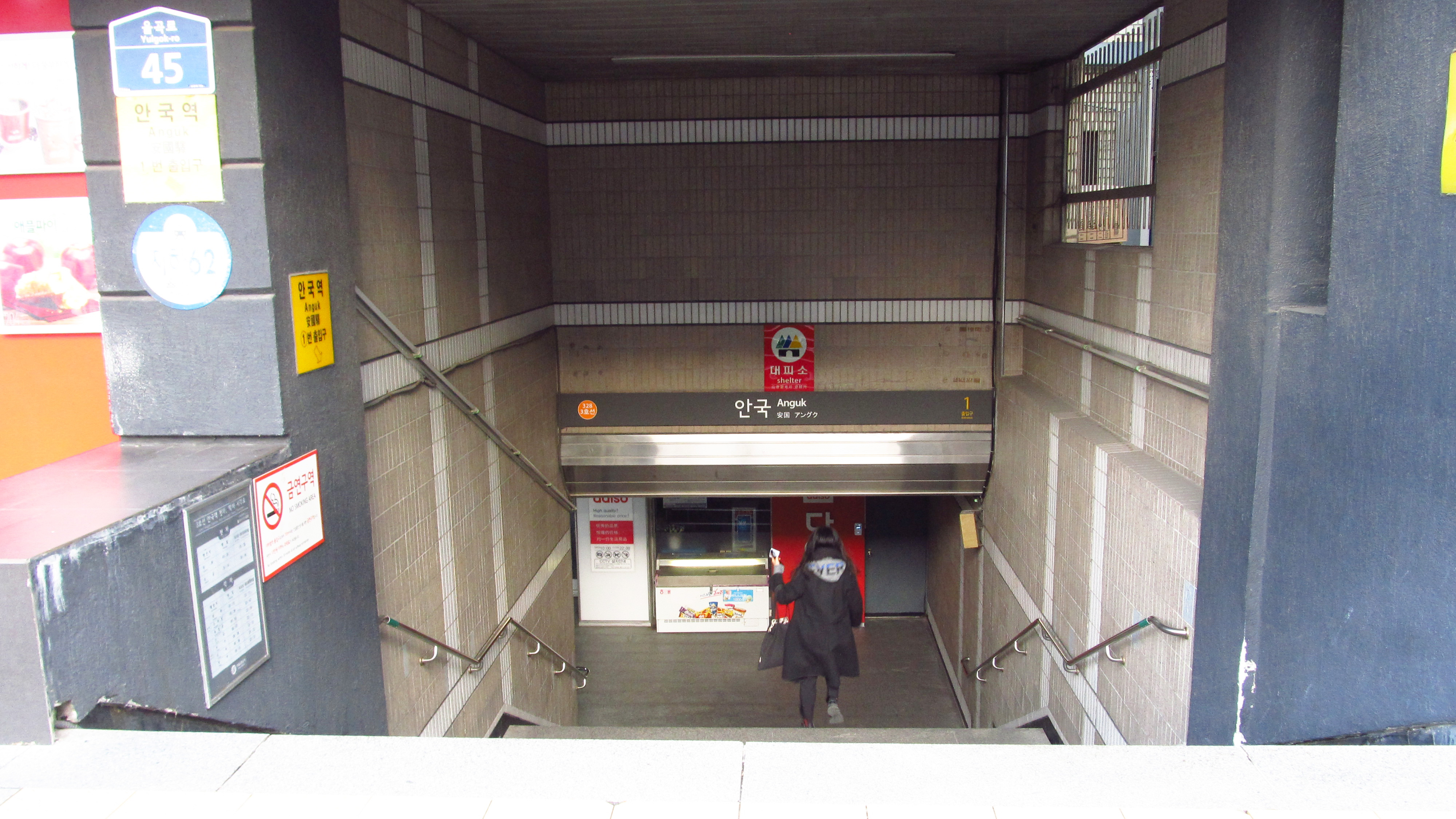 The no.1 entrance to Anguk Station on Seoul Subway Line 3 in Jongno-gu, Seoul, Republic of Korea(South Korea)